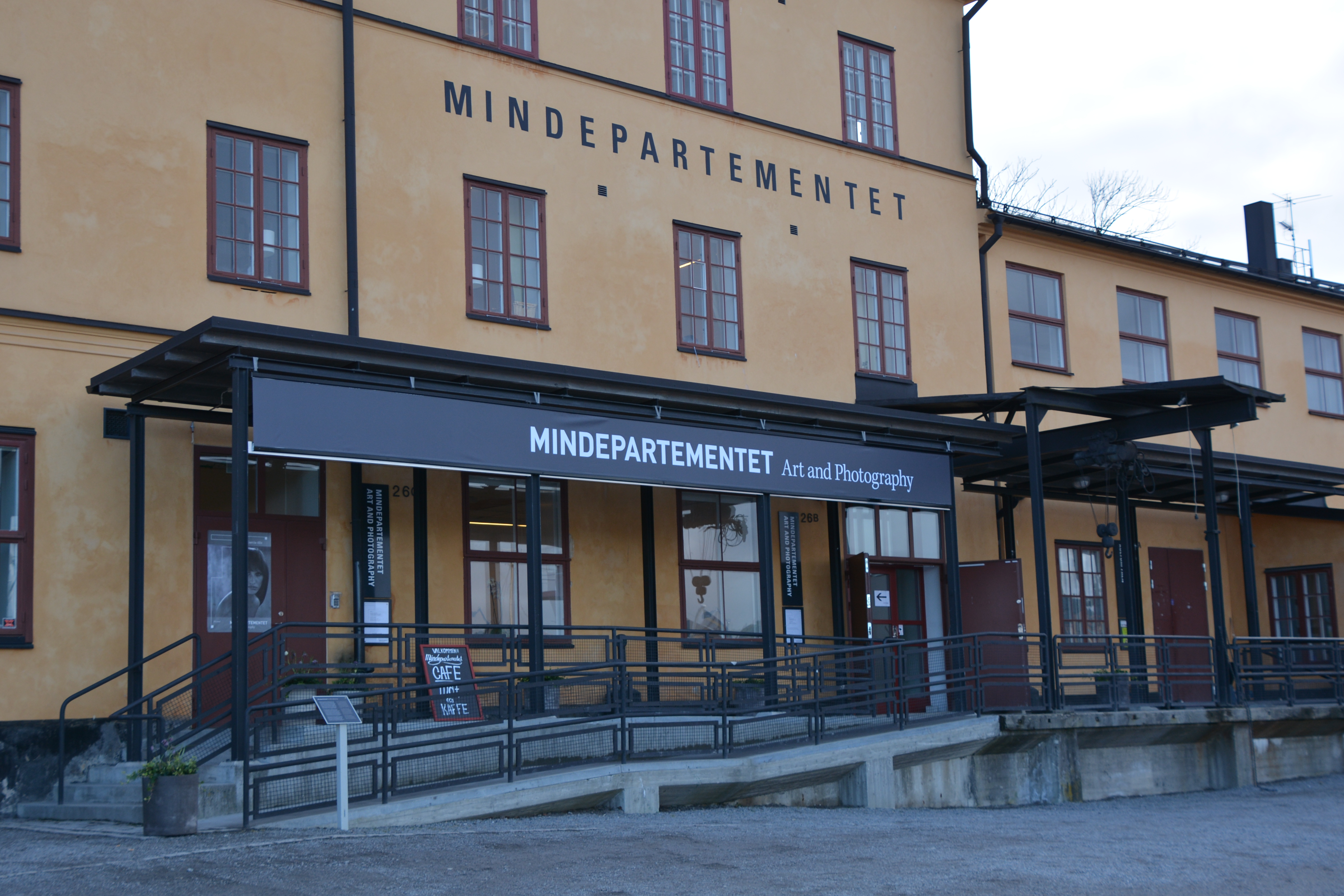 Mindepartementet Art and Photograhy, entré